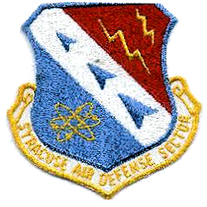 Emblem of the Syracuse Air Defense Sector